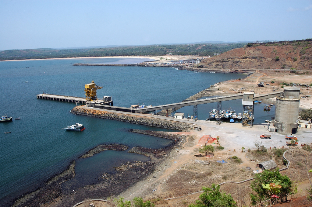 Harbour in Ratnagiri, west in India.